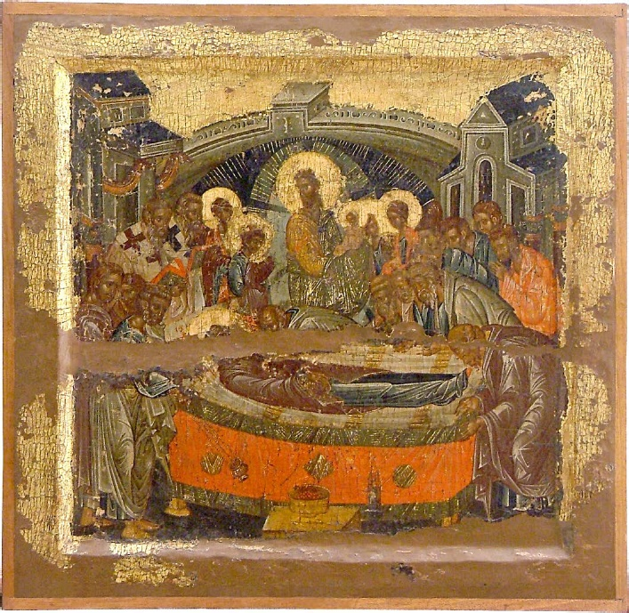 Dormition, Early XIV Century, St Nicholas Gerakomia Church, Ohrid Icon Gallery